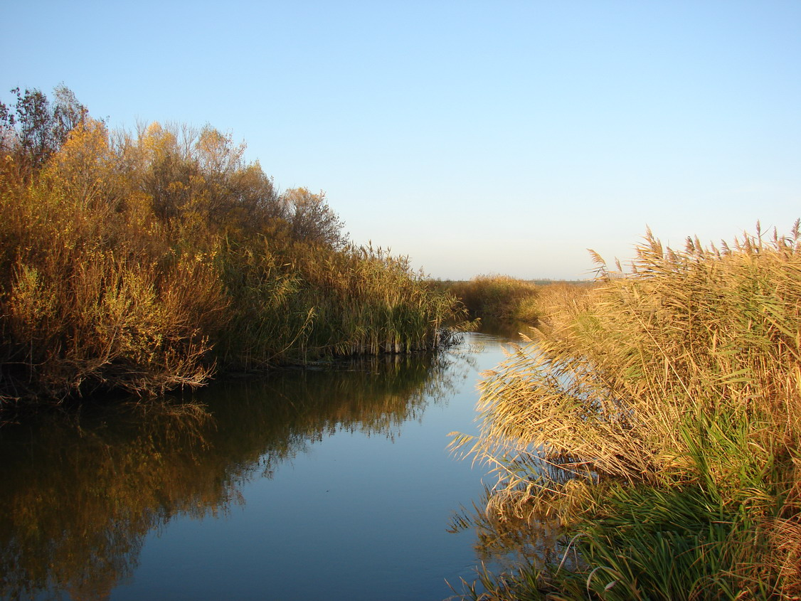 Bityug River in autumn